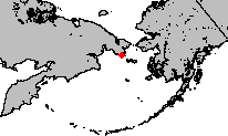 Detail showing Bering Sea with location of Providence (Provideniya) Bay marked.